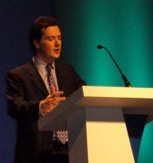 George Osborne at Conservative Spring Forum 2006 in Manchester, Photo by Simon Scarpa